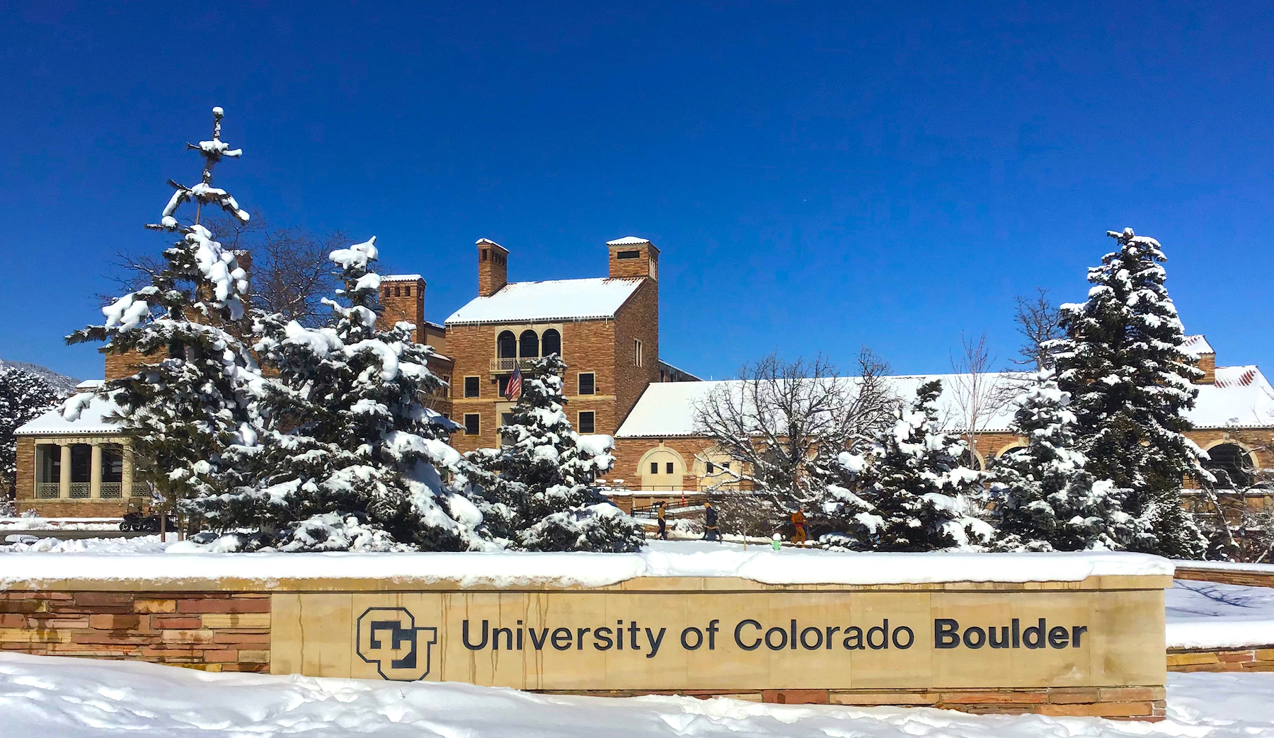 Entrance from Broadway Avenue